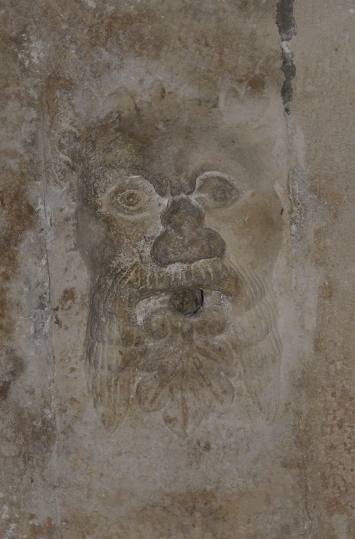 Castle Campbell (Scotland) - green man in tower house